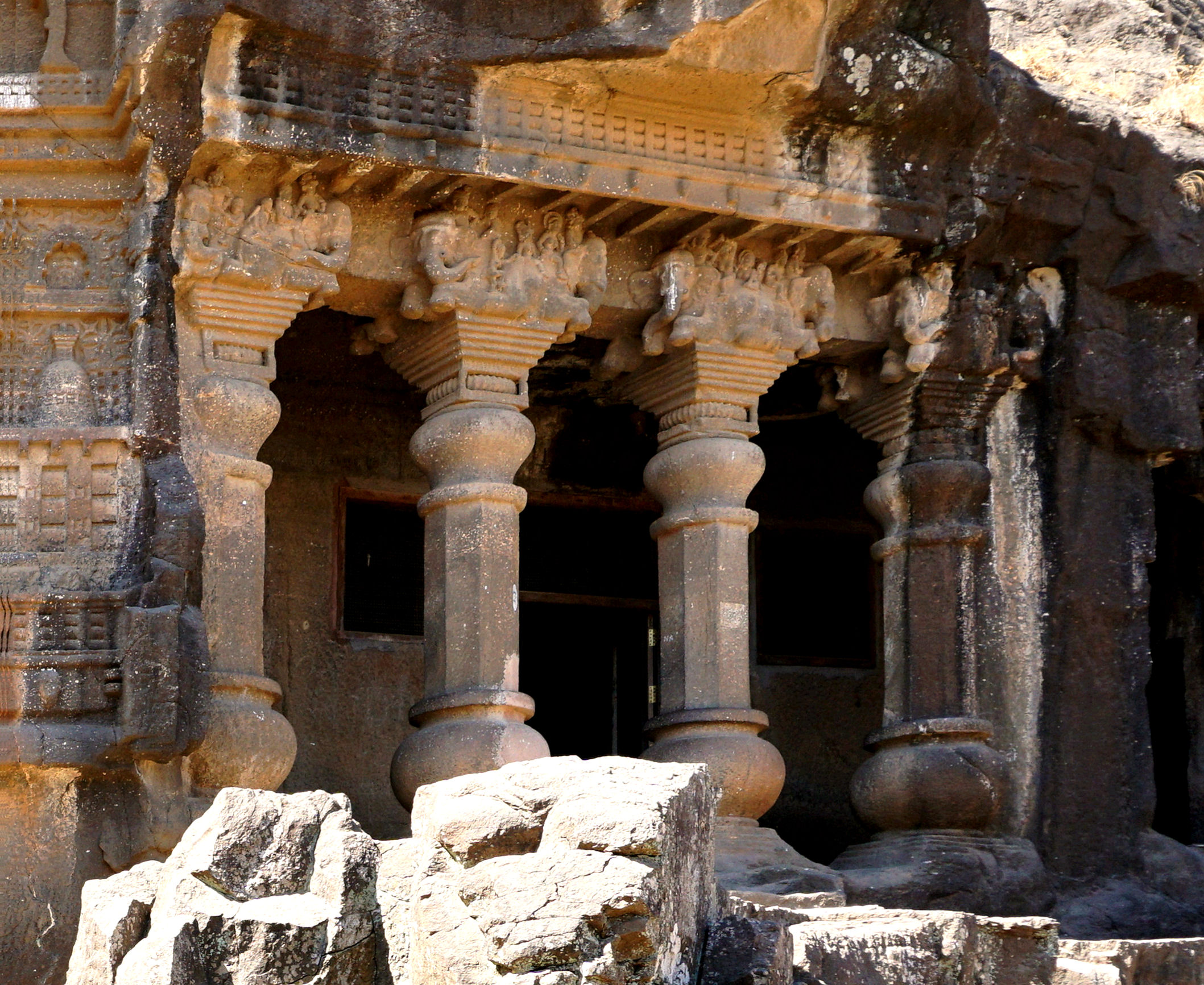 Cave 17 at Pandavleni